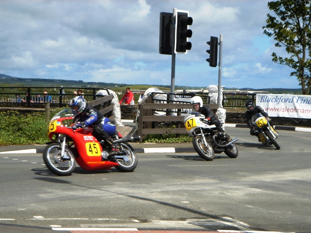 T.T. Classic Race